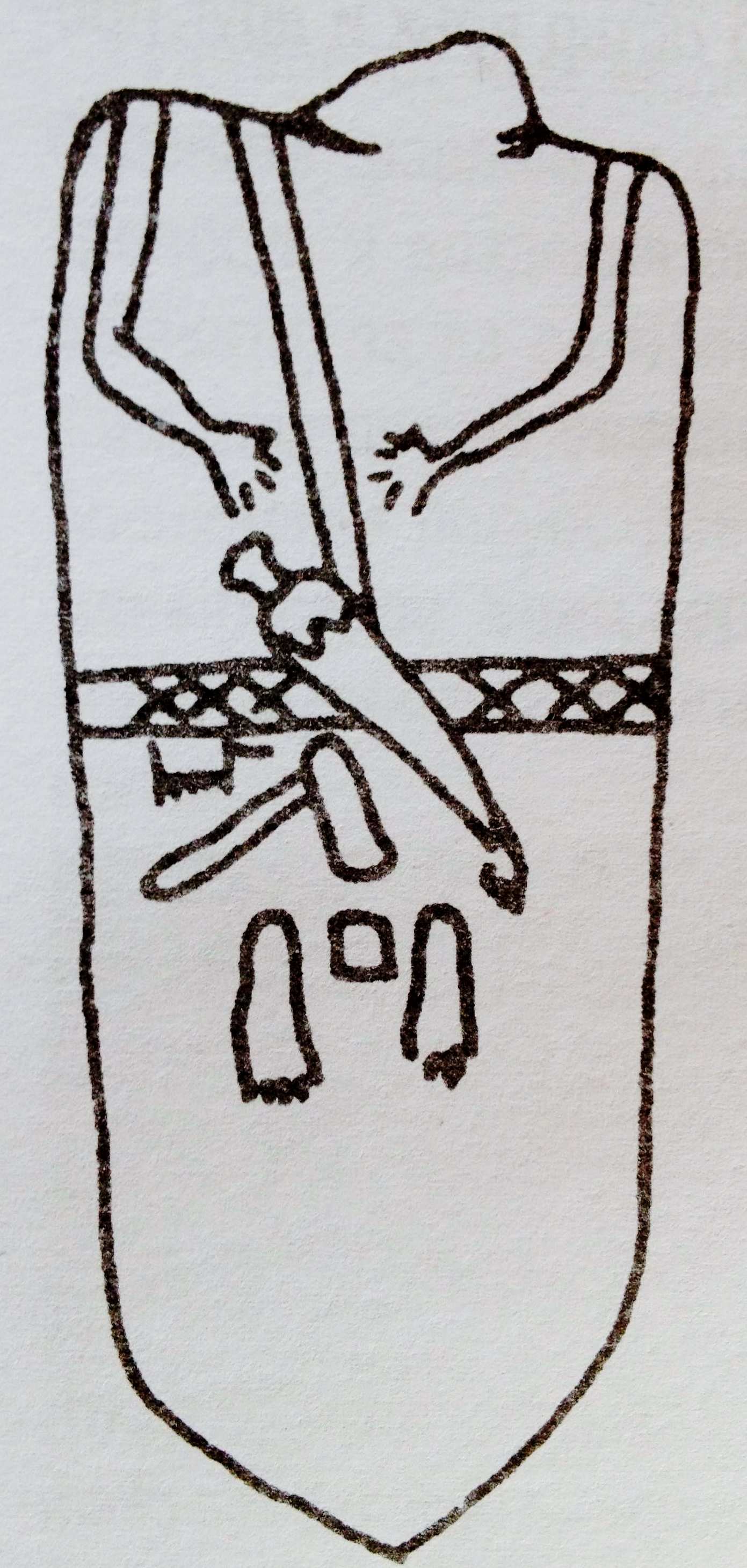 Nuraghe Stellae Kalishe Bulgaria